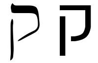 hebrew letter qof